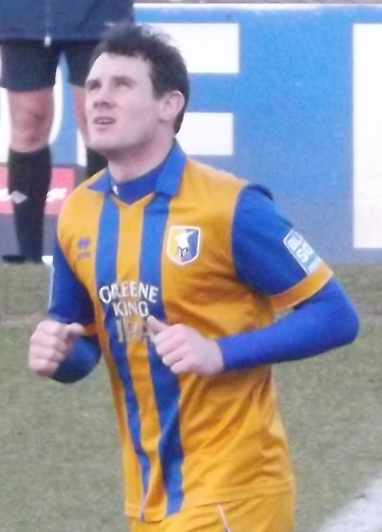 Lee Beevers. Image cropped from original at flickr